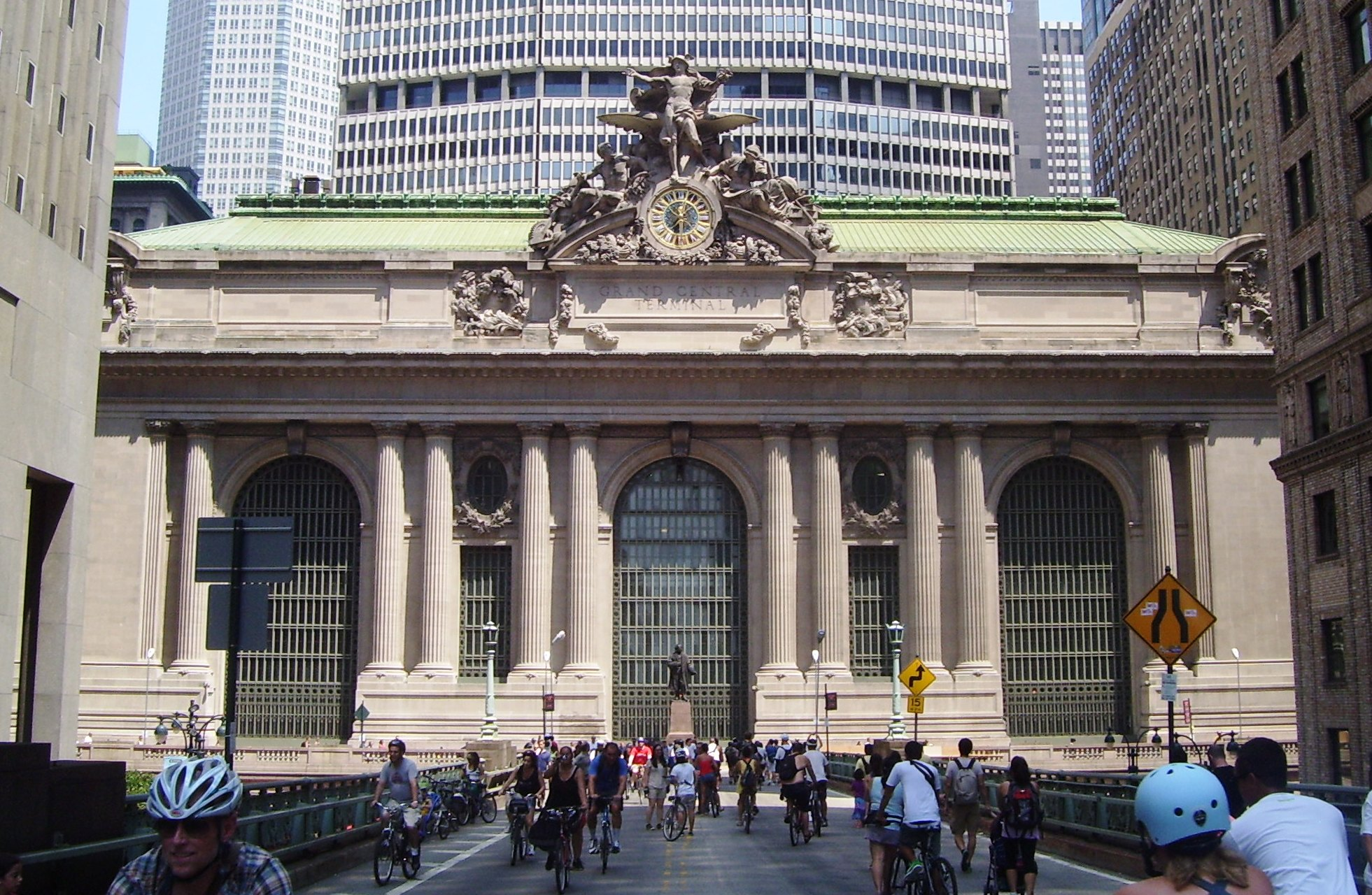 Grand Central Terminal seen from the Park Avenue Viaduct during "Summer Streets", when 7 miles of New York City streets are closed to vehicular traffic.